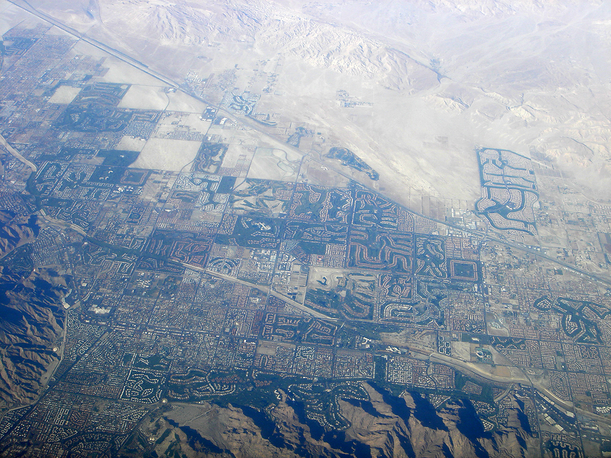 Let's get environmental, 3: Palm Springs pretty much exists because of groundwater sources. Green patches you see are golf courses and developments. The problem is that if I've understood correctly, PS takes far more water out from underground sources than what goes into them. Renewable they are, but not in the current rate of consumption. How long does this lifestyle continue before PS turns into another ghost town? 50 years? 100 years? Note also the difference between "old" PS (up, left) and newer Palm Desert (right). From the sky, PD's developments are clearly wasteful compared to PS's modest mid-century landscaping-trees-public-parks style.